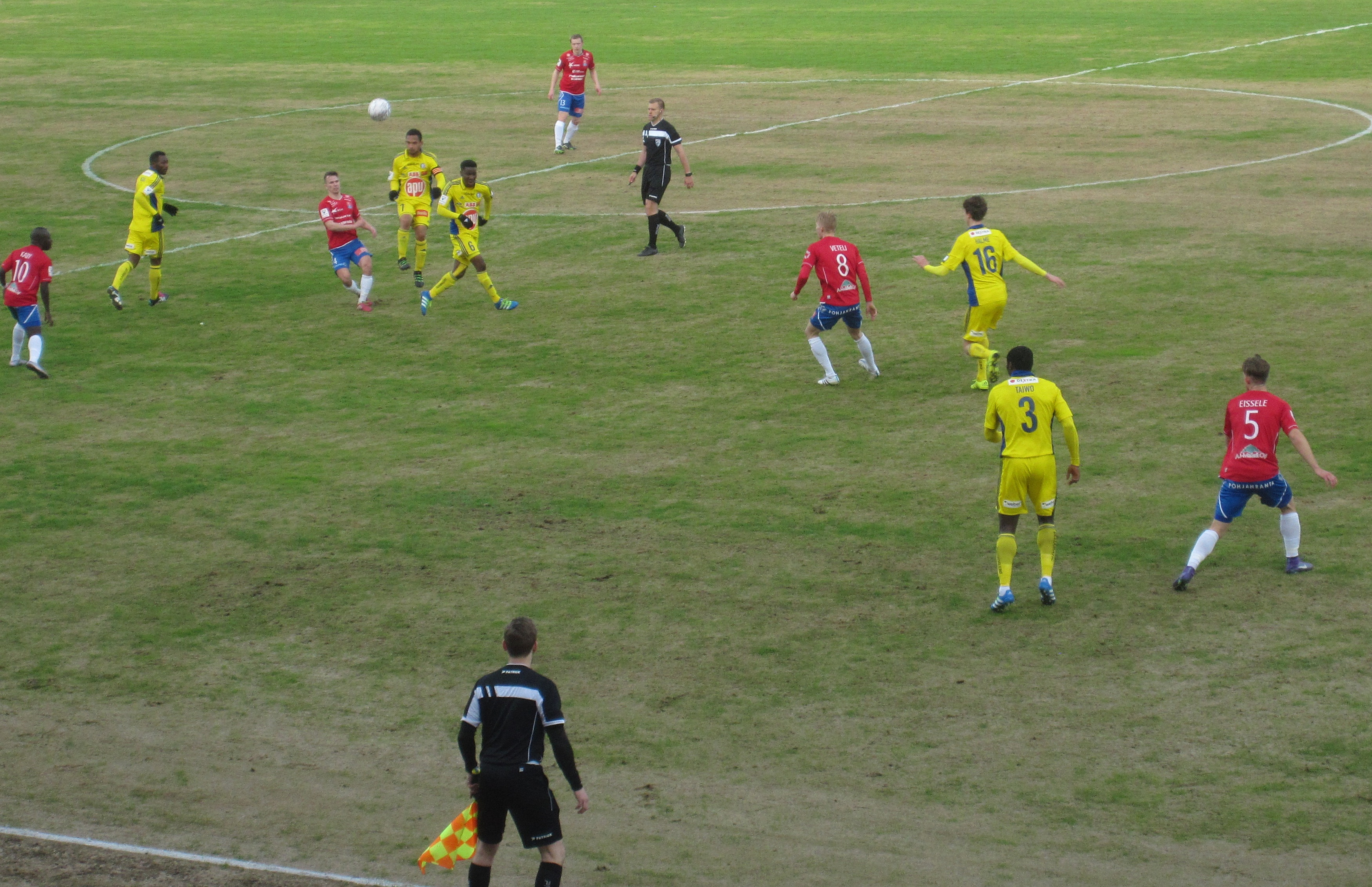 The game of Palloseura Kemi Kings vs Helsingin Jalkapalloklubi at the Raatti stadium in Oulu.